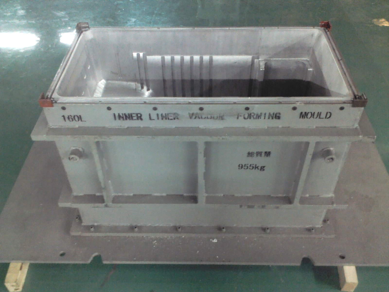 Vacuum forming mold. Material: Aluminium and Steel Product: Refrigerator's inner liner/food liner